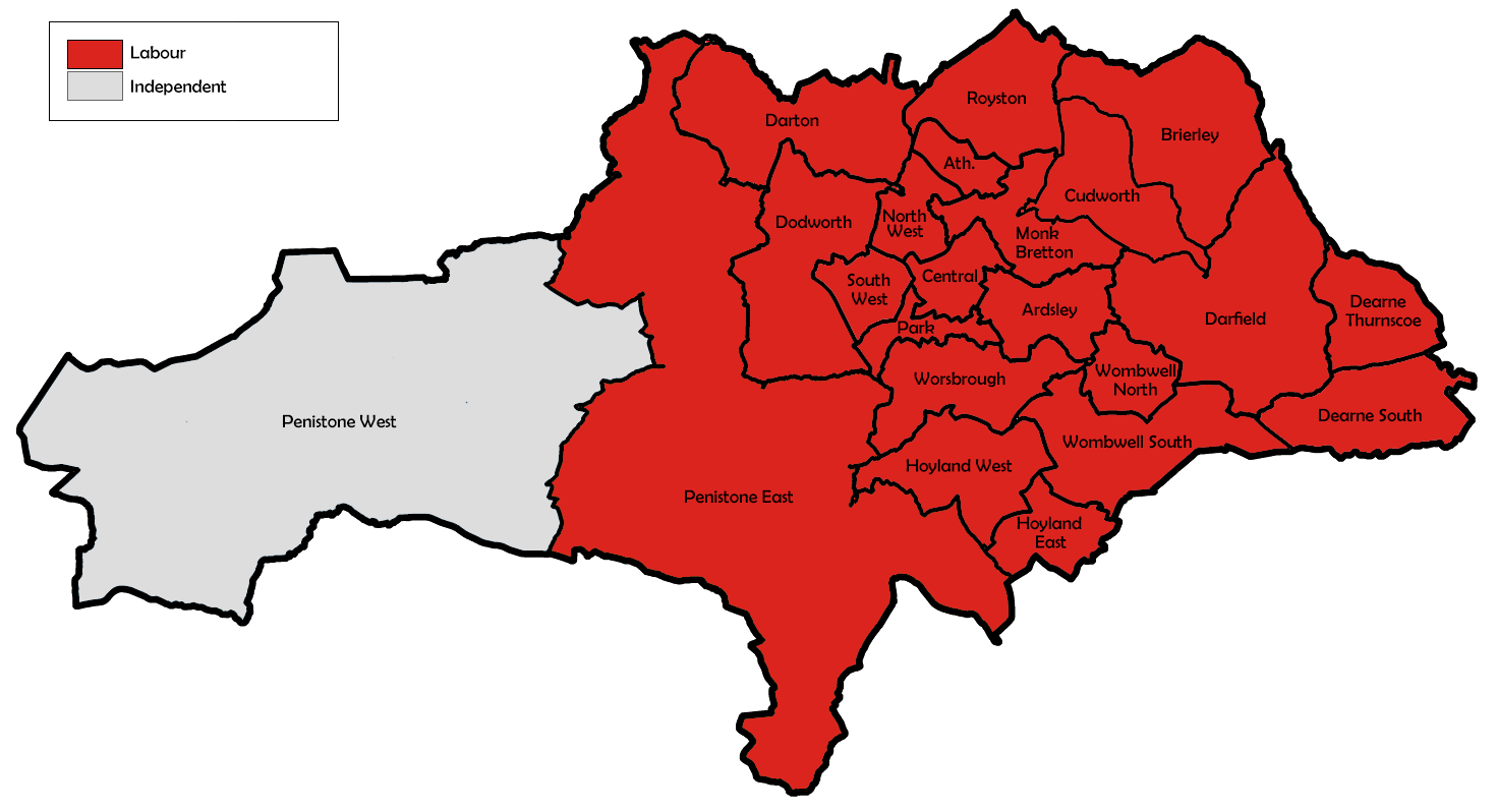 Ward map of Barnsley council with political colouring for the 1994 election.